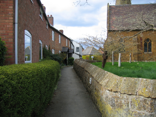 Lane by Gaydon Church. Looking north up the lane at the west end of the church.